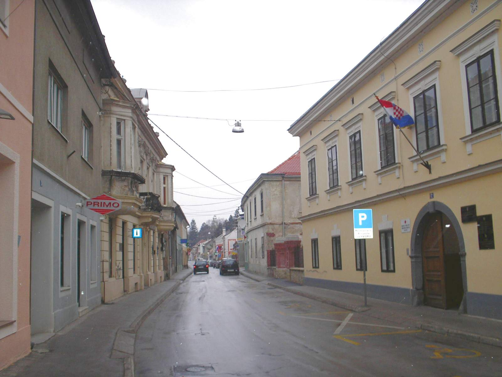 Magistratska 12 (on left), City of Krapina, Croatia